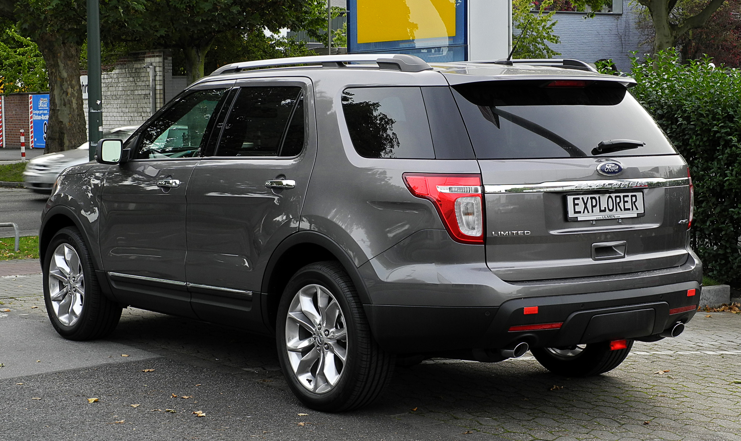 Ford Explorer 3.5 V6 AWD Limited (V)